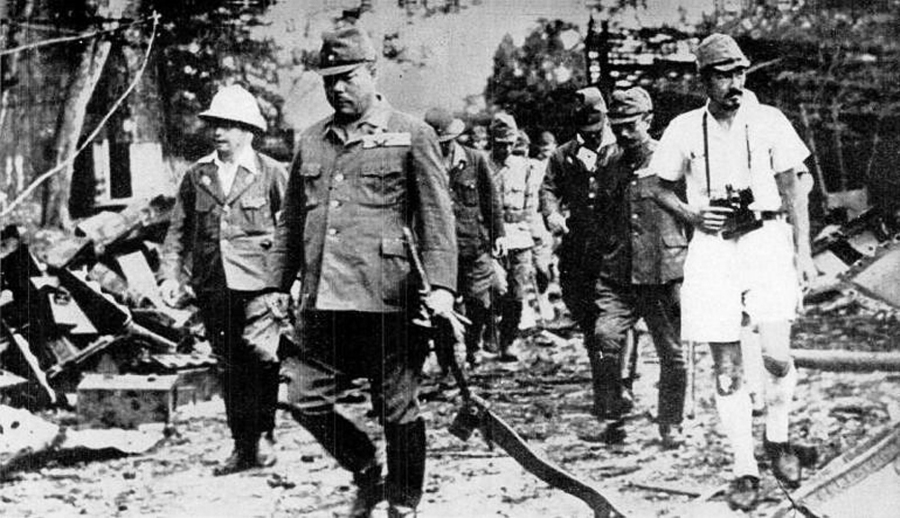 general T.Yamashita, commander in chief of the 25th Army at Singapore